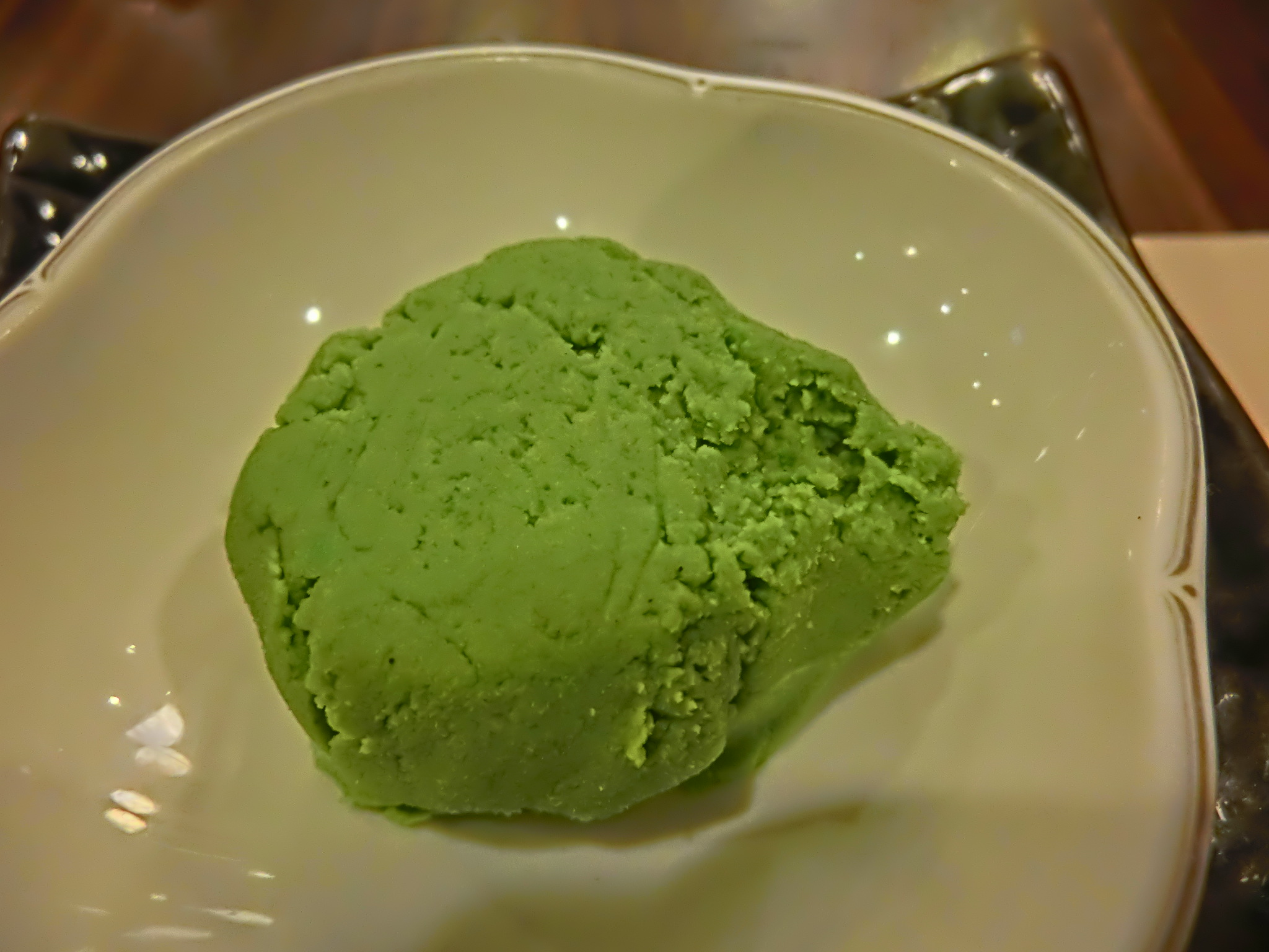 香港 和田日本料理, Wada Japanese Restaurant, The South China Hotel, Java Road, North Point, Hong Kong